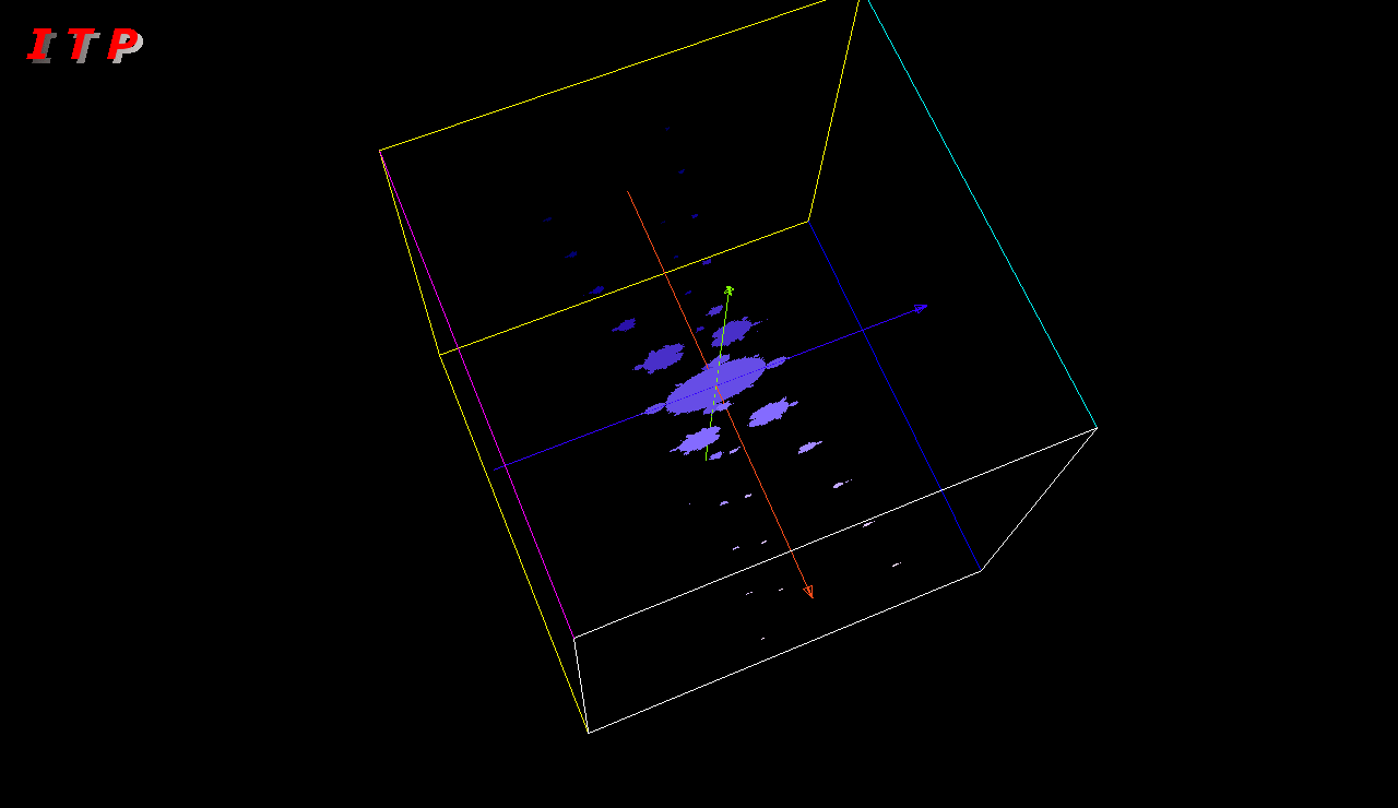 Cuts through the three-dimensional body